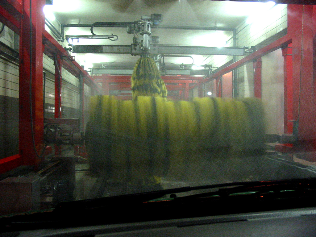 Inside a car wash in Budapest. The car wash is at a gas station, the car is a Fiat Punto Mk I. Picture was taken by me on 1st October, 2002.